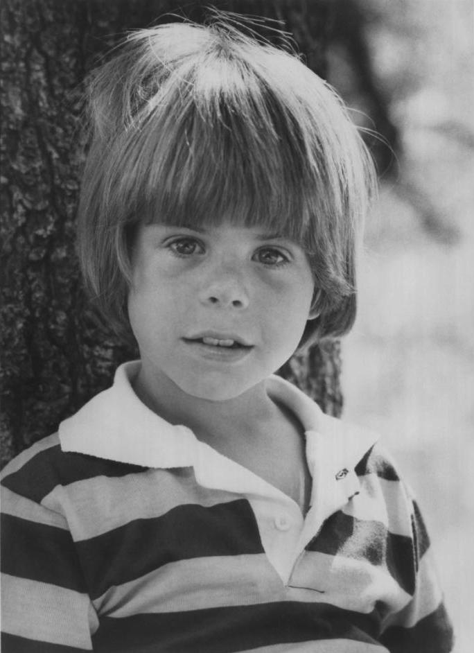 Photo of Adam Rich, star of Eight Is Enough, 1977.